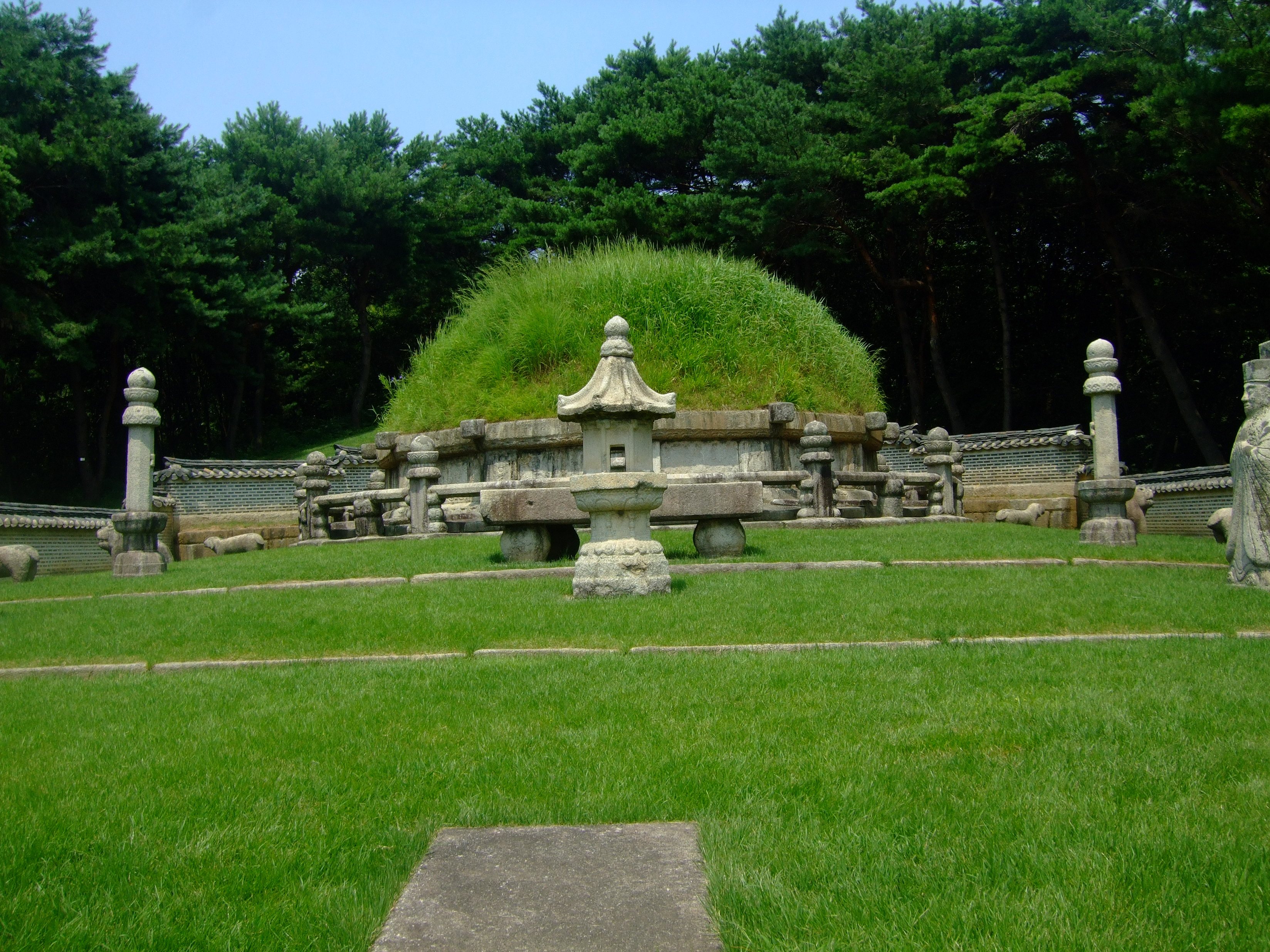 Taejo of Joseon's grave